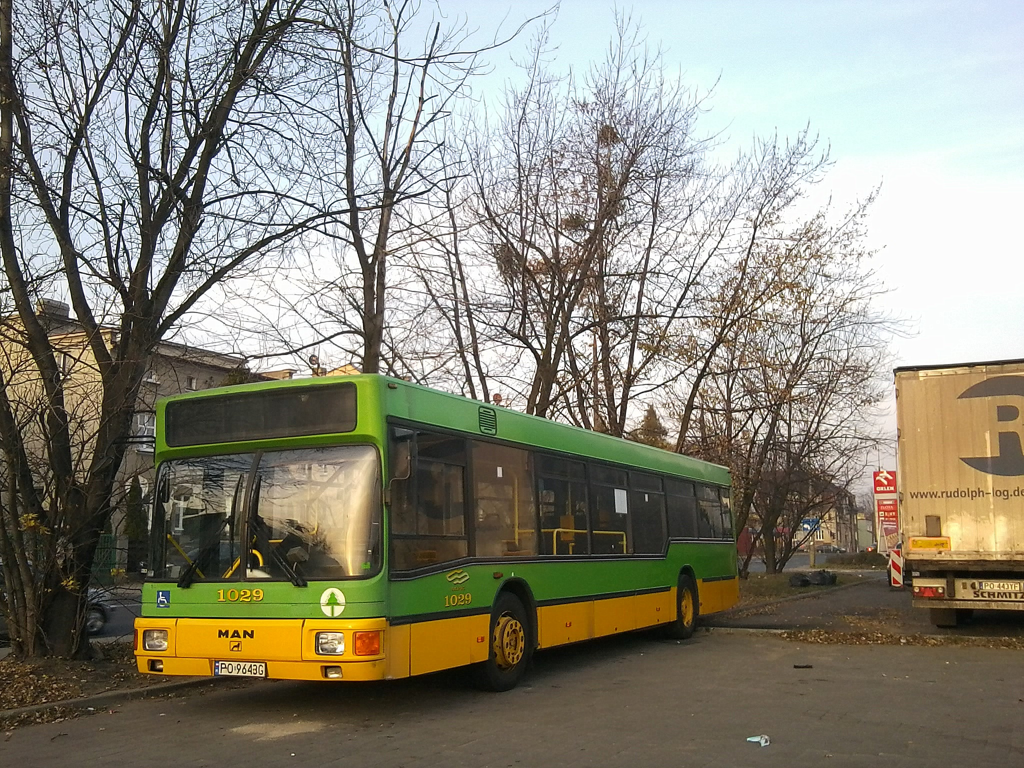 MAN NL 202 (#1029, reg. PO 9643G) of 1996 in the colors at a standstill MPK Poznań on the loop Górczyn, Poznań, Poland.